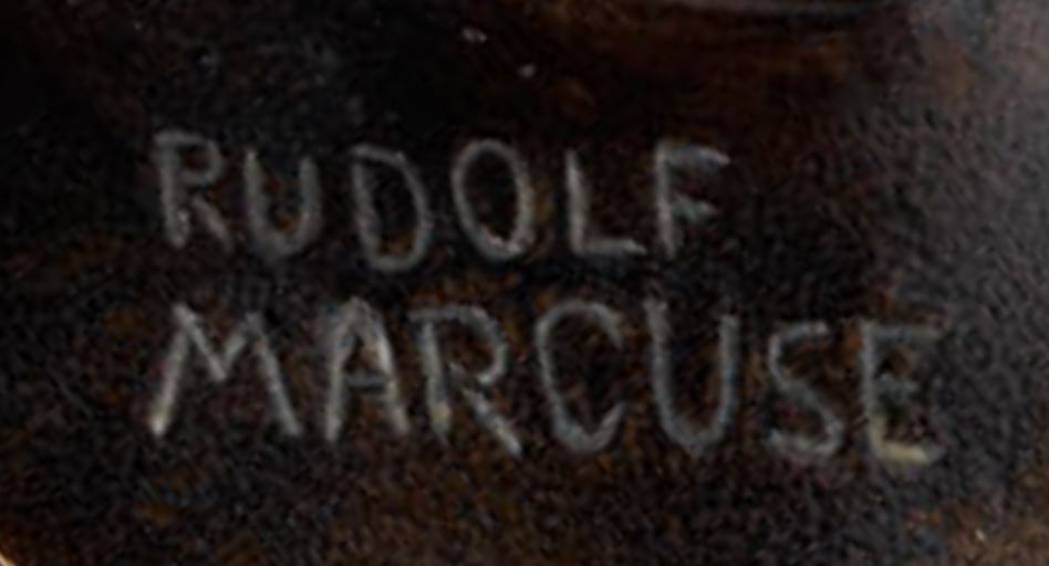 Signature of Rudolf Marcuse